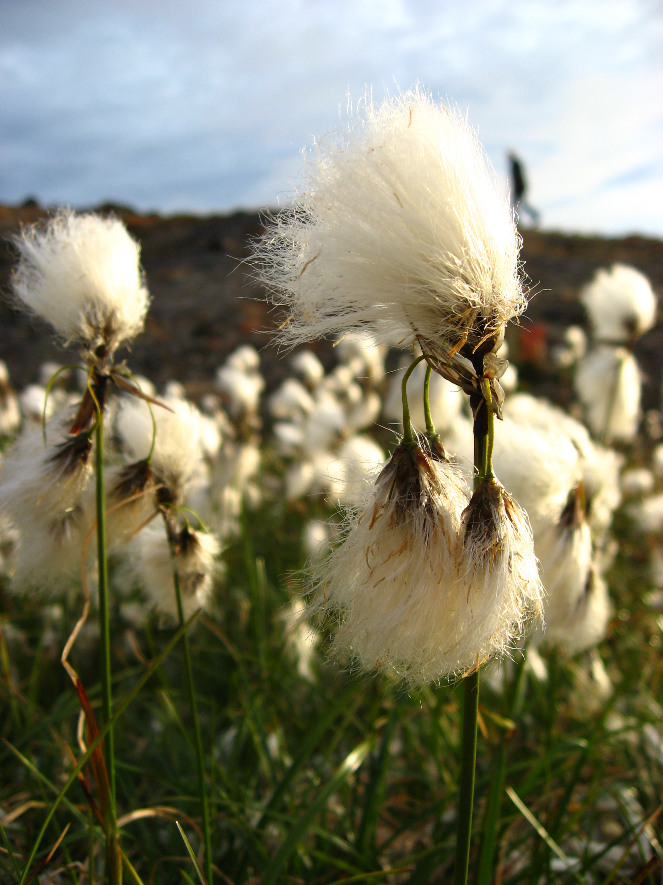 Common Cottongrass (Eriophorum angustifolium) photographed near Upernavik, Greenland.